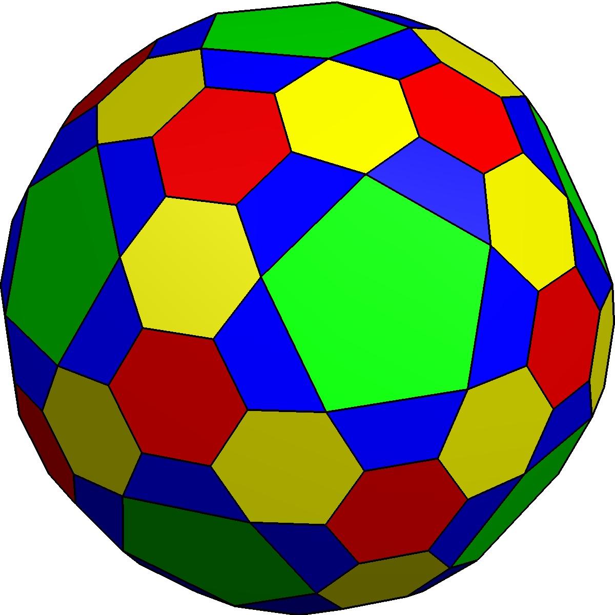 Symmetrohedron I(0;2;3;e)